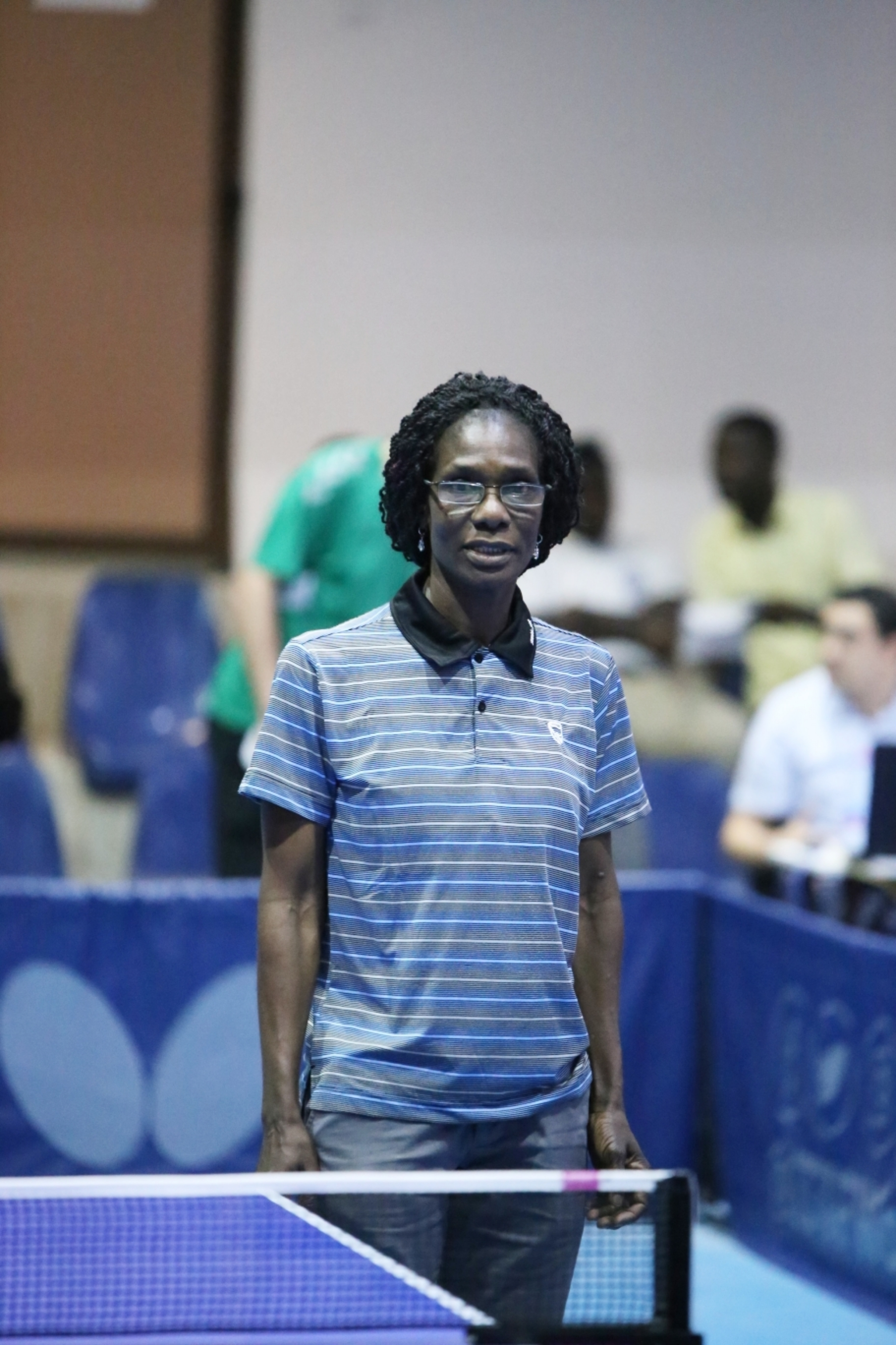 Ghana's former Table Tennis Player Esther Lamptey